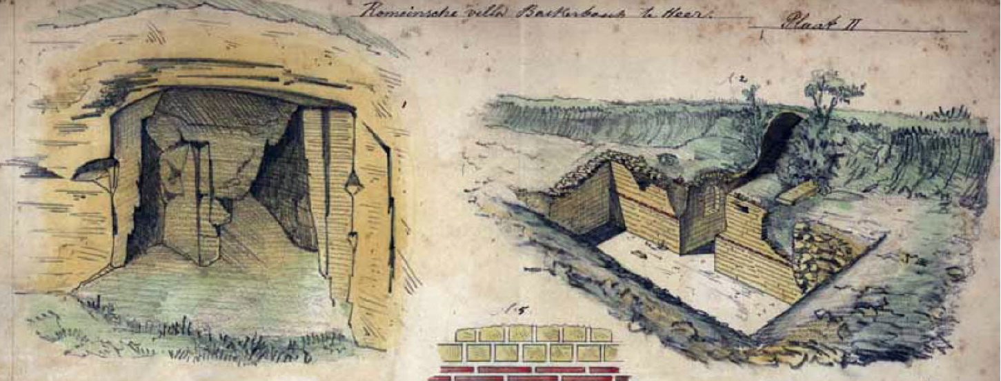 Drawing of the archaeological site of the Roman villa Backerbosch in Cadier en Keer near Maastricht, the Netherlands. The drawings are by the leader of the excavation in 1879-80, the priest Jozef Habets (1829-1893) and are now in the collections of Rijksarchief Limburg (Maastricht).